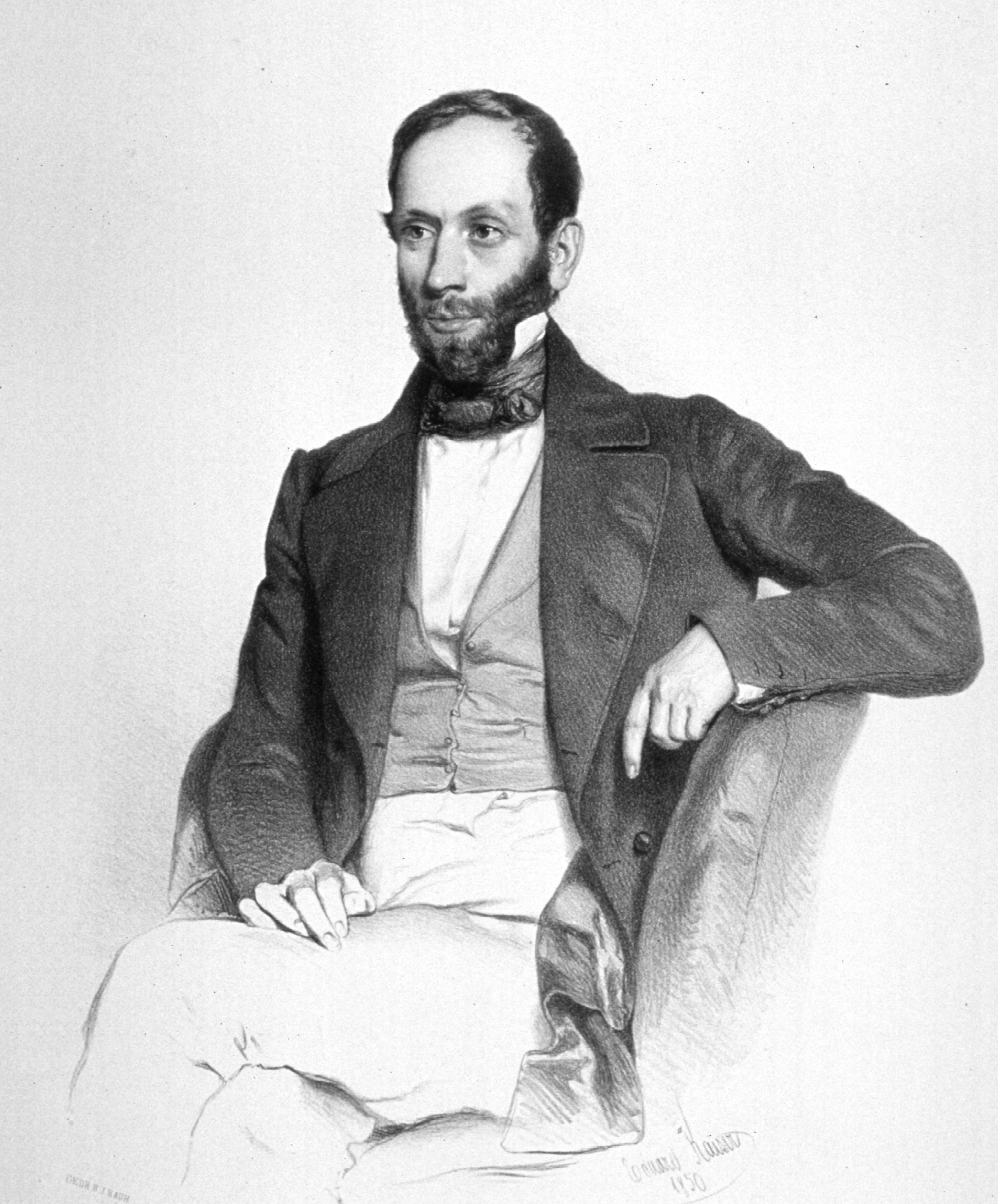 Carl Ludwig Sigmund von Ilanor (August 27, 1810 – February 1, 1883)